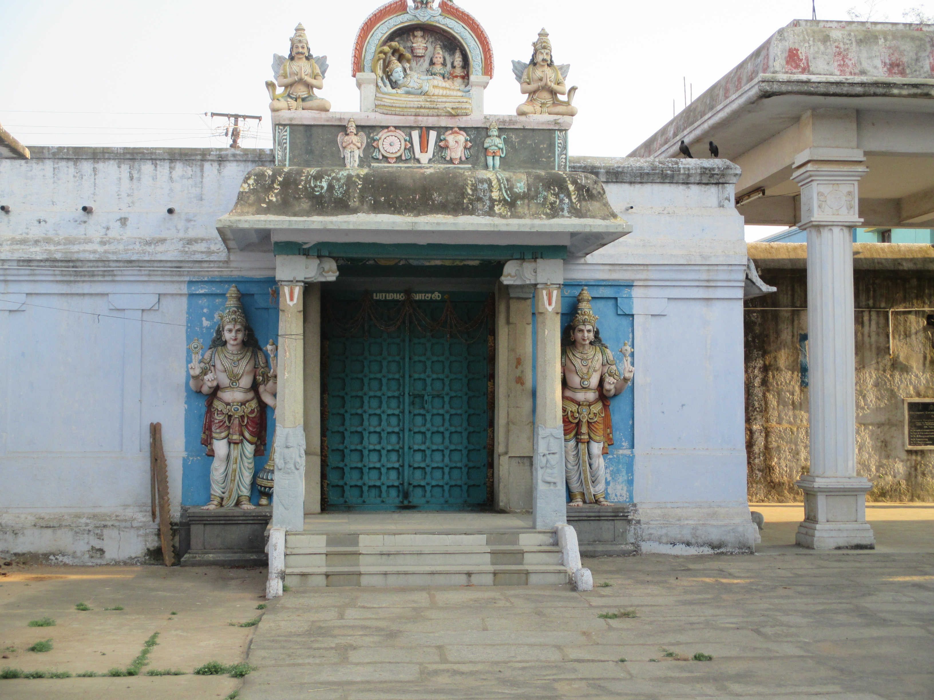 Jagannatha Perumal temple